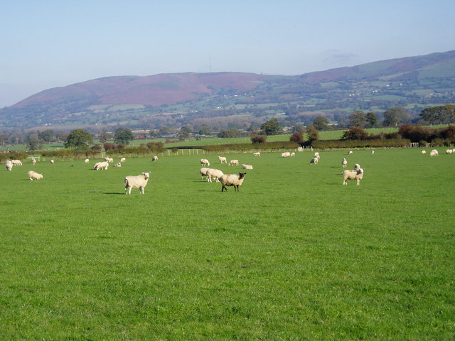 Llwyn Uchaf grazing. A field-full of sheep at Llwyn Uchaf, Llanrhaeadr. Clwydian Hills in the distance.